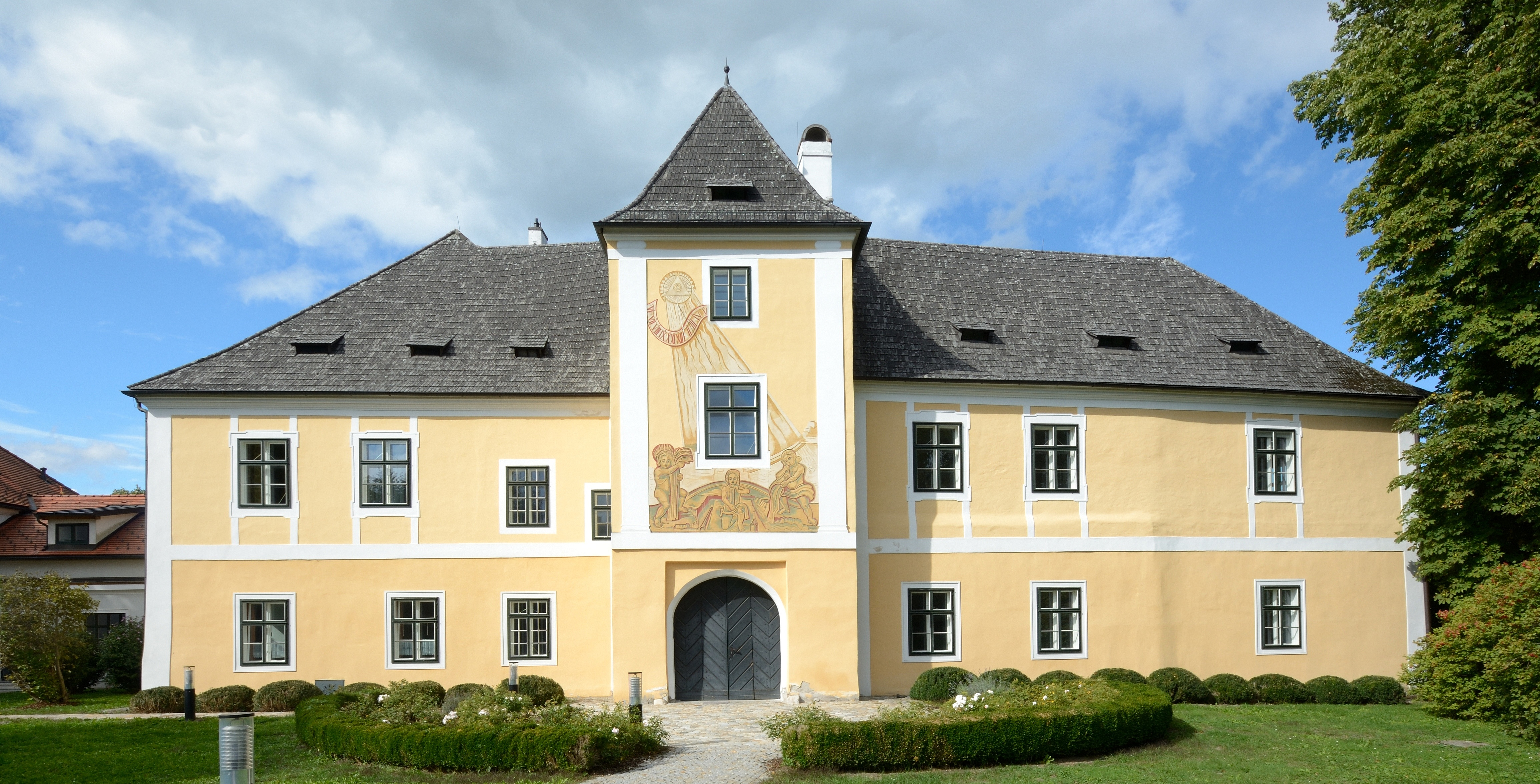 Castle Petzenkirchen, Federal Agency for Water Management, Institute for Land & Water Management Research